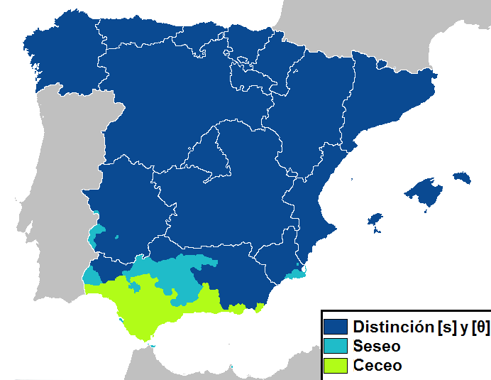 Ceceo–seseo–distinción in European Spanish